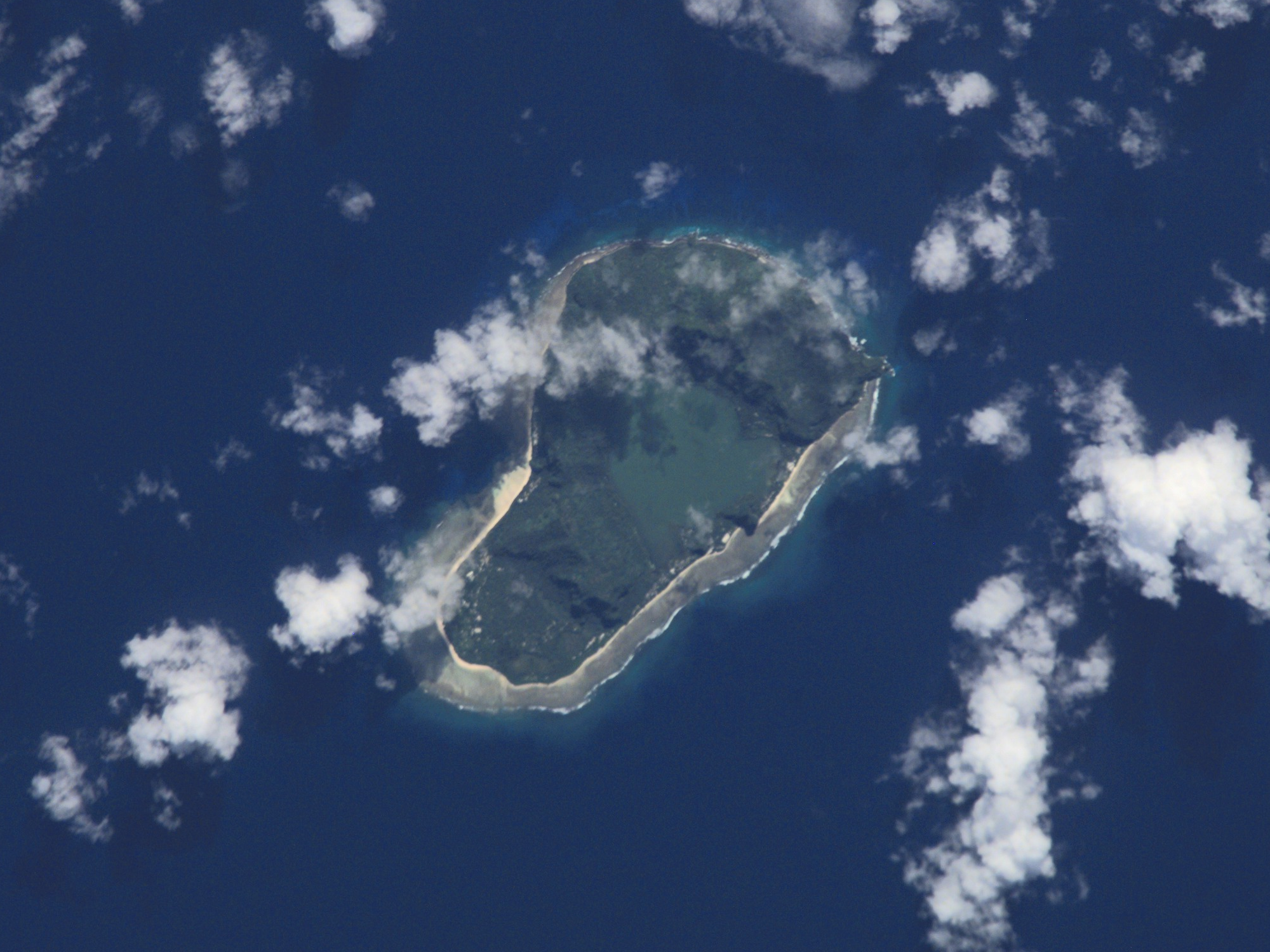 NASA astronaut image of Tikopia Island, Solomon Islands, Pacific Ocean